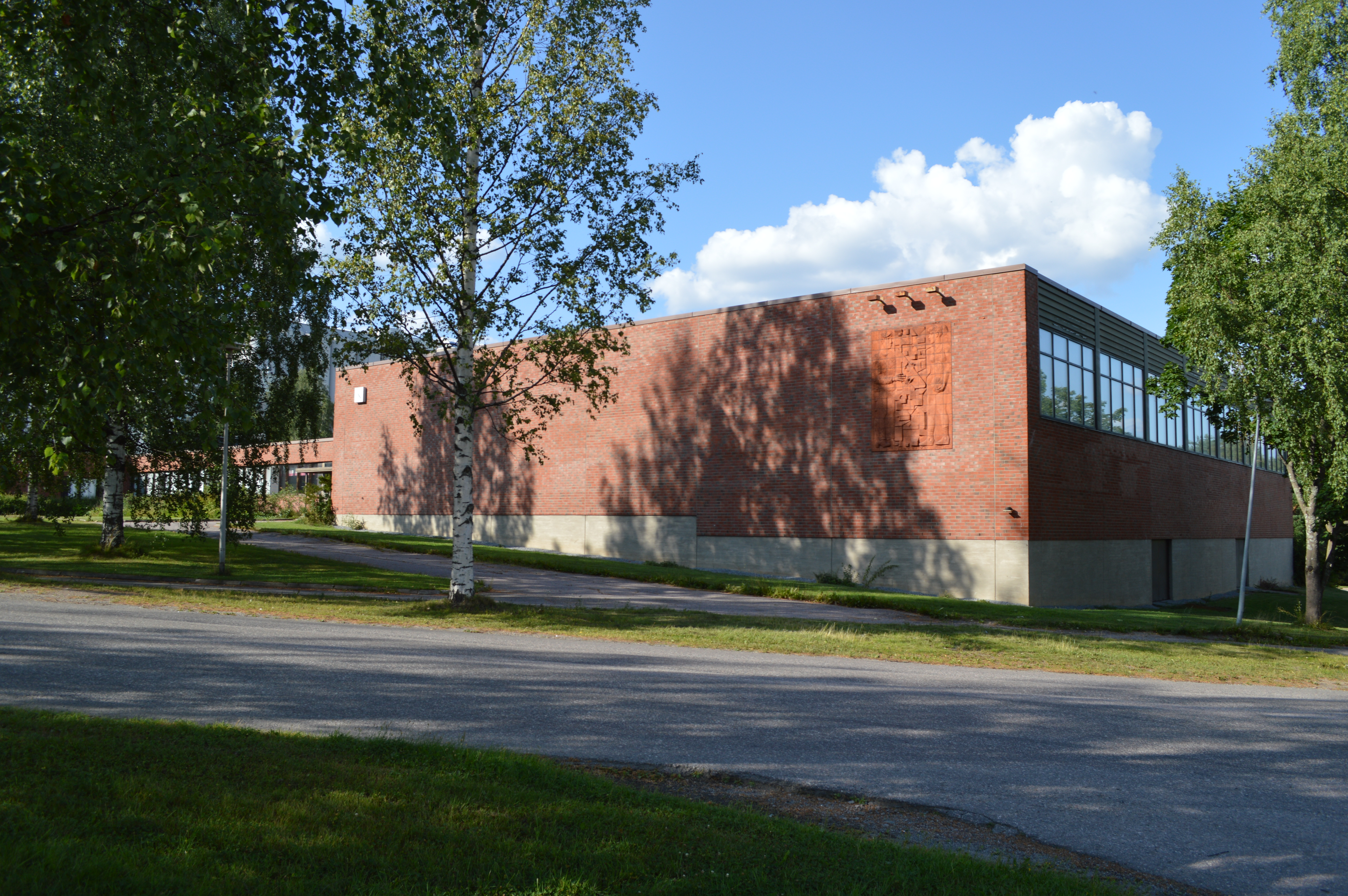 Nokia Sports Hall